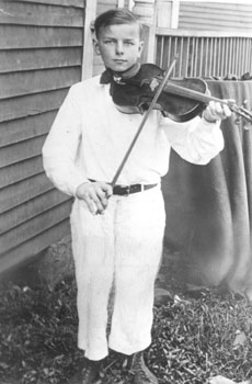 Future U.S. Senator Robert Byrd as a young boy